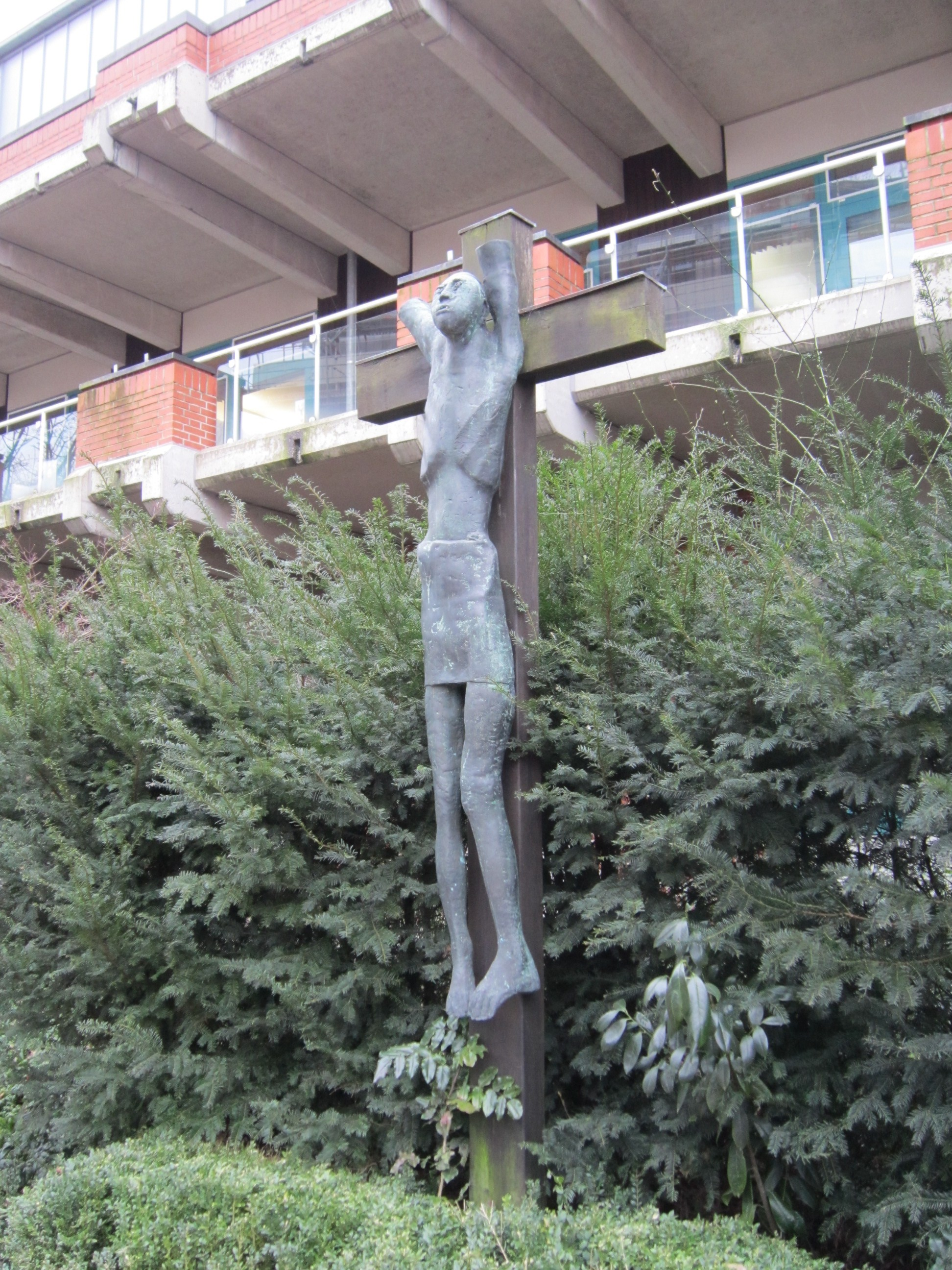 Crucifix without hands, created by Ulrich Fox and posed in front of "Marienhospital Vechta"